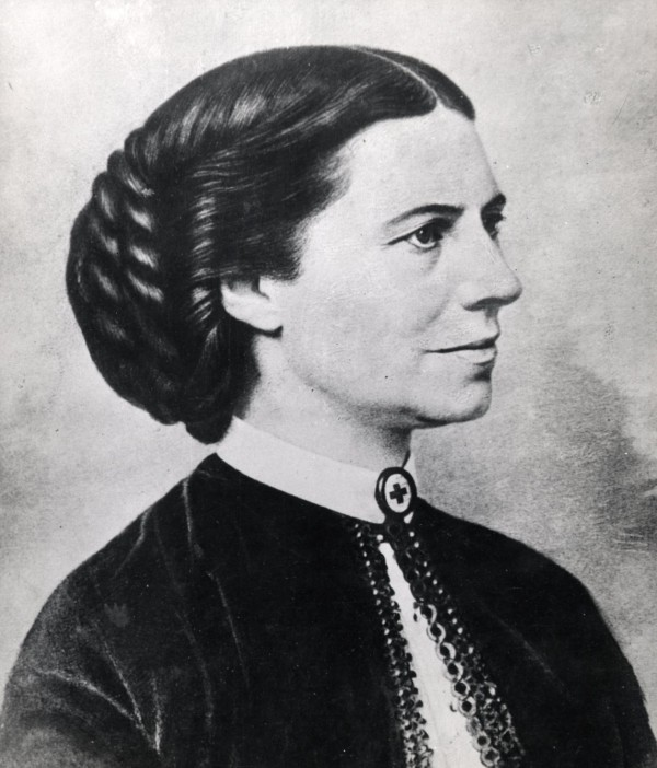 Clara Barton 1865